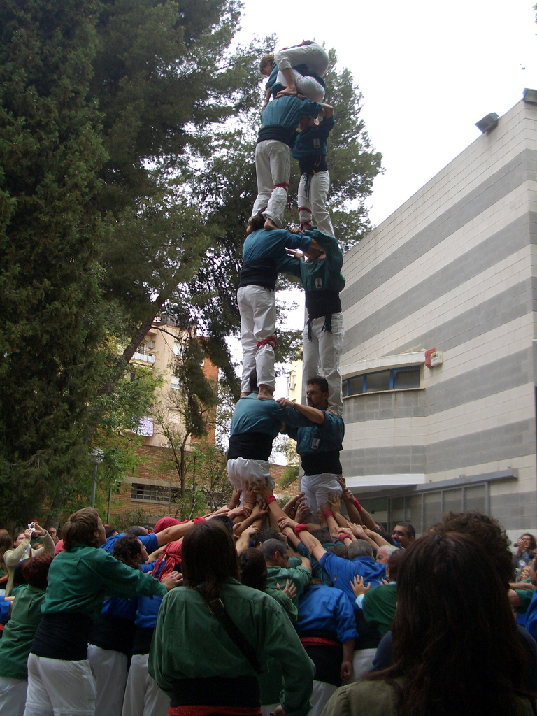 2 de 6 dels Castellers de Caldes de Montbui. Diada de Sant Jordi a Esplugues, any 2006